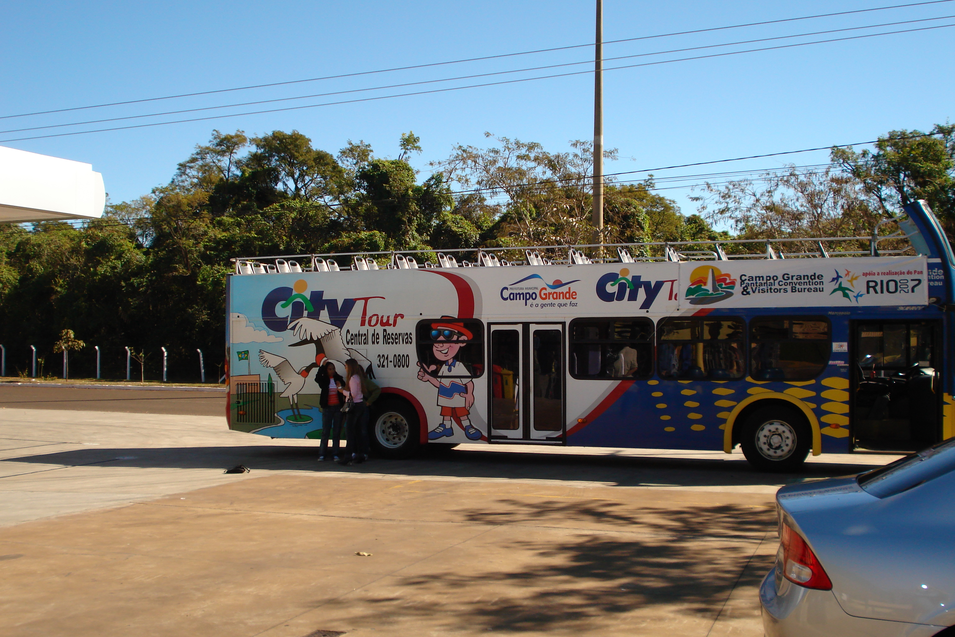 City Tour